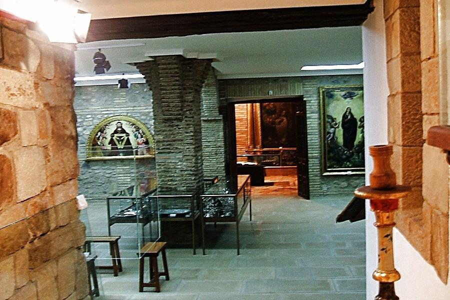 Museo de arte sacro del Monasterio femenino trapense (Cistercienses OCSO) de Santa María de la Caridad, en Tulebras (Navarra, España)